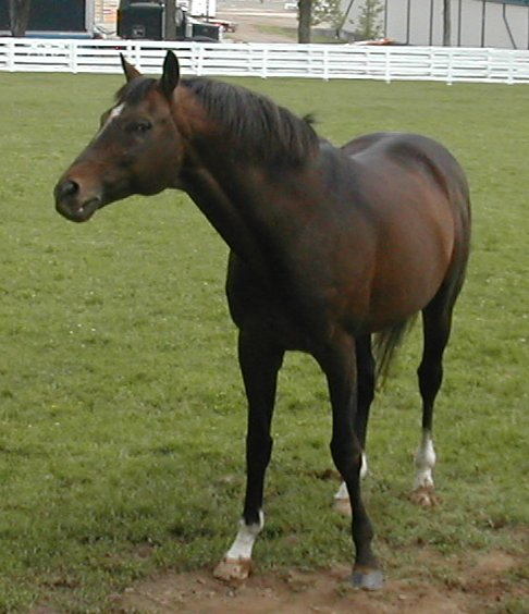 Photo taken by me in May, 2006 at Kentucky Horse